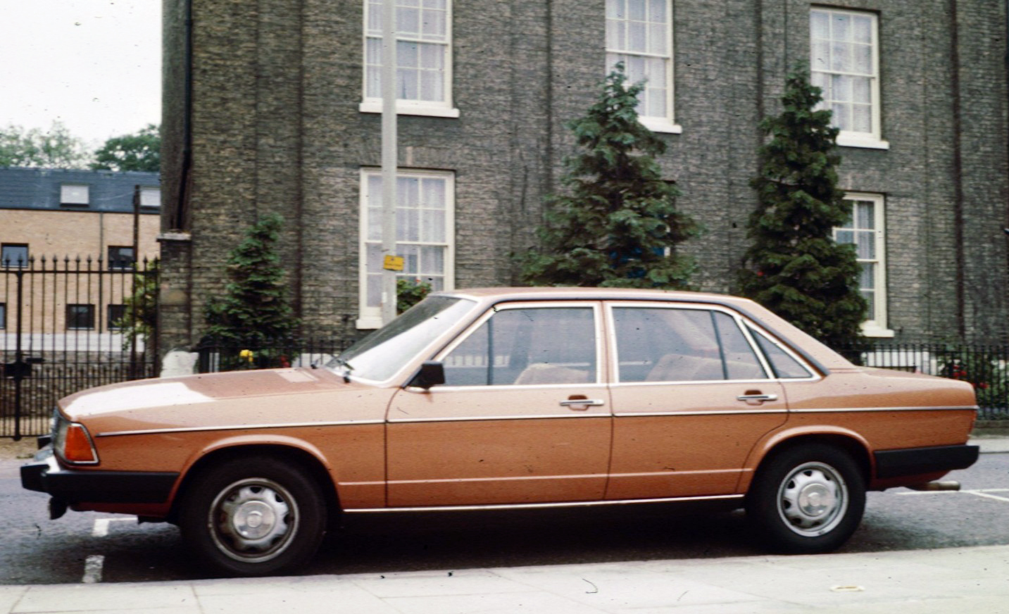 Audi 100 C2 in a curious shade of metalic pink in Cambridge